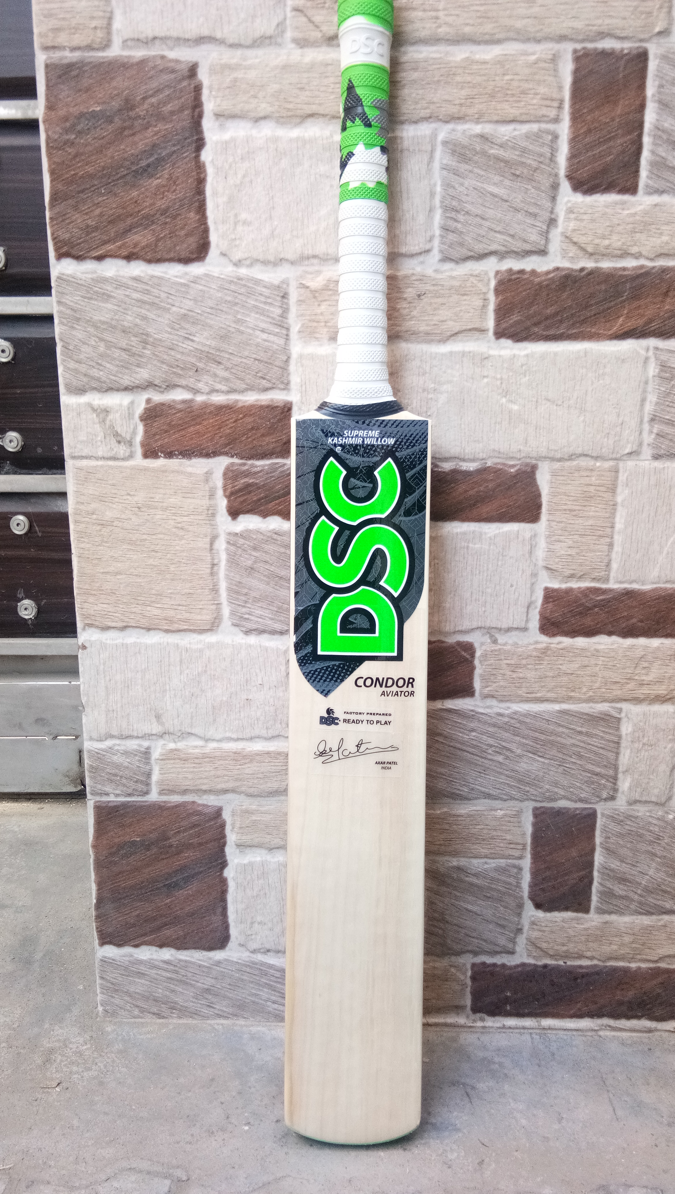 Its my new Kashmir Willow Cricket Bat, i purchased from market. The Bat is manufactured by DSC company.